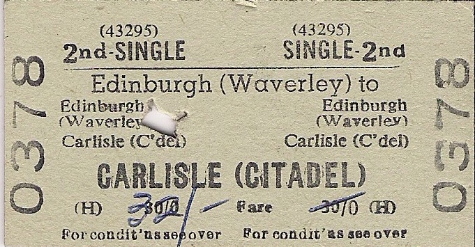 Ticket issued by British Railways from Edinburgh Waverley railway station for Carlisle railway station over the Waverley Route.